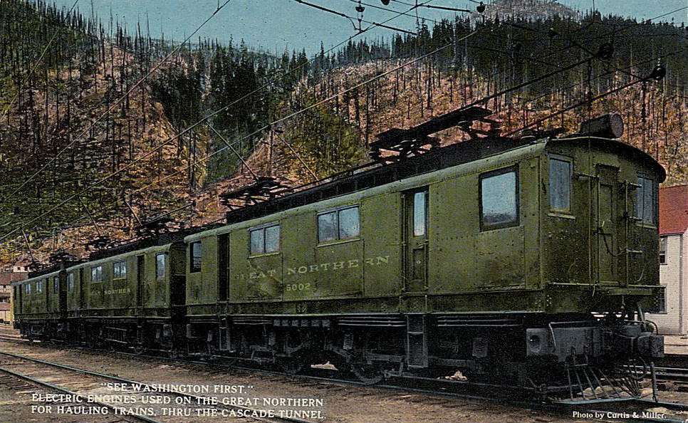 Postcard photo of the GE AC boxcab electric locomotives used by the Great Northern to take trains through the old Cascade Tunnel. The old tunnel was electrified by the railroad in 1909; these locomotives began work there at the time and remained working until the new Cascade Tunnel was completed in 1929.